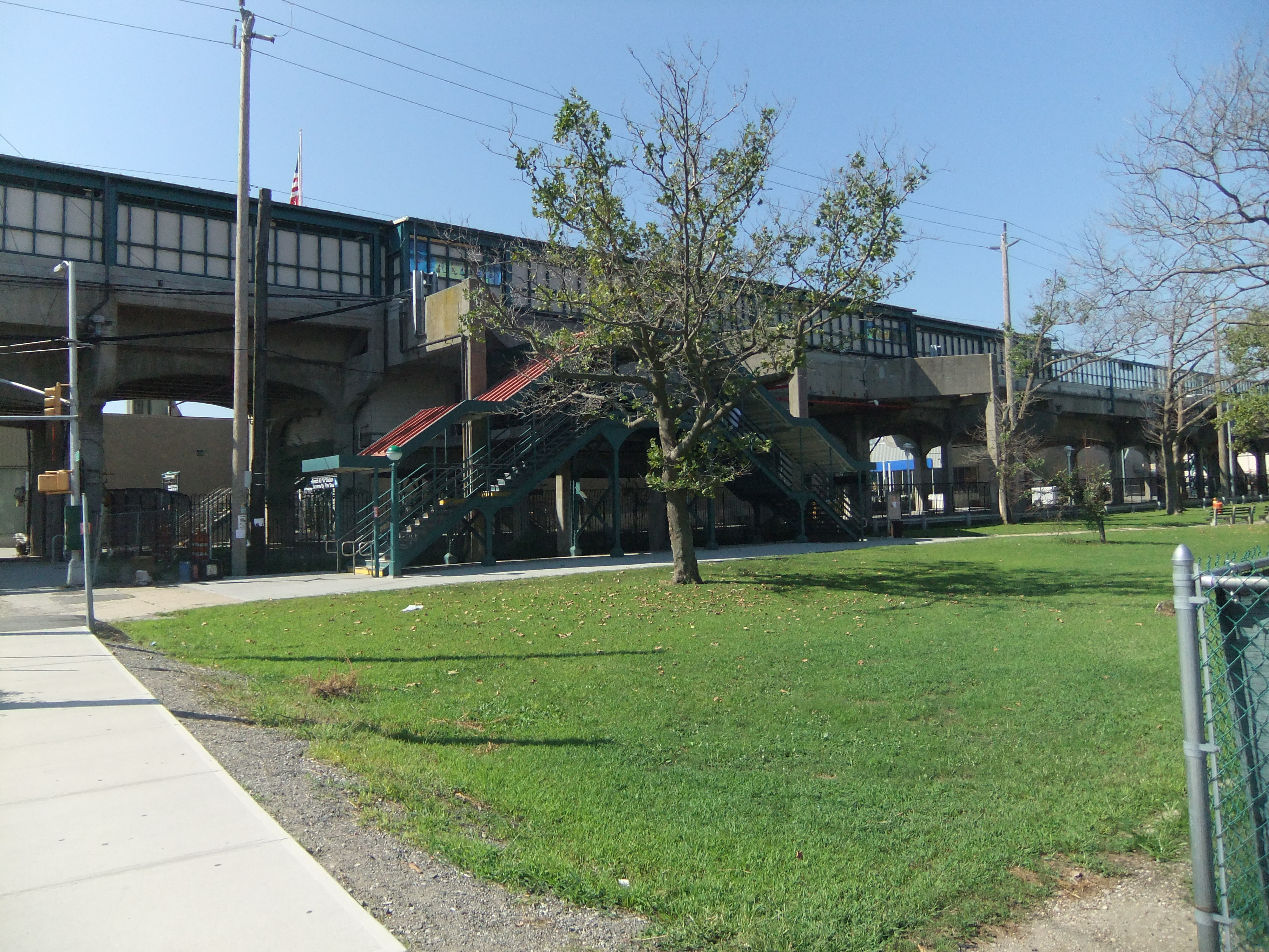 Staircase at Beach 67th Street and Rkwy Freeway.